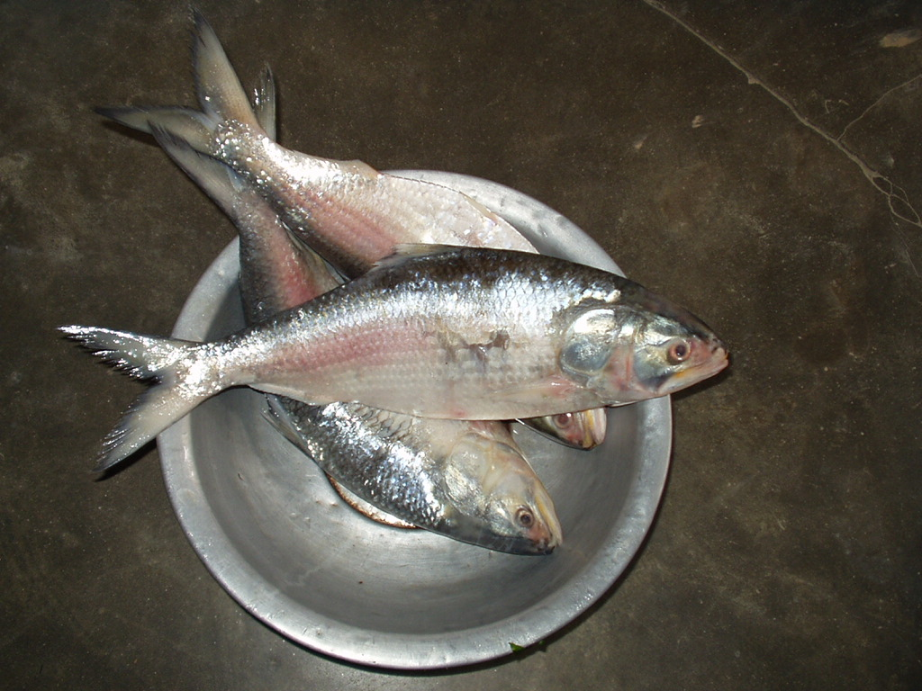 Ilish fish, National Fish of BD. -mamun2a